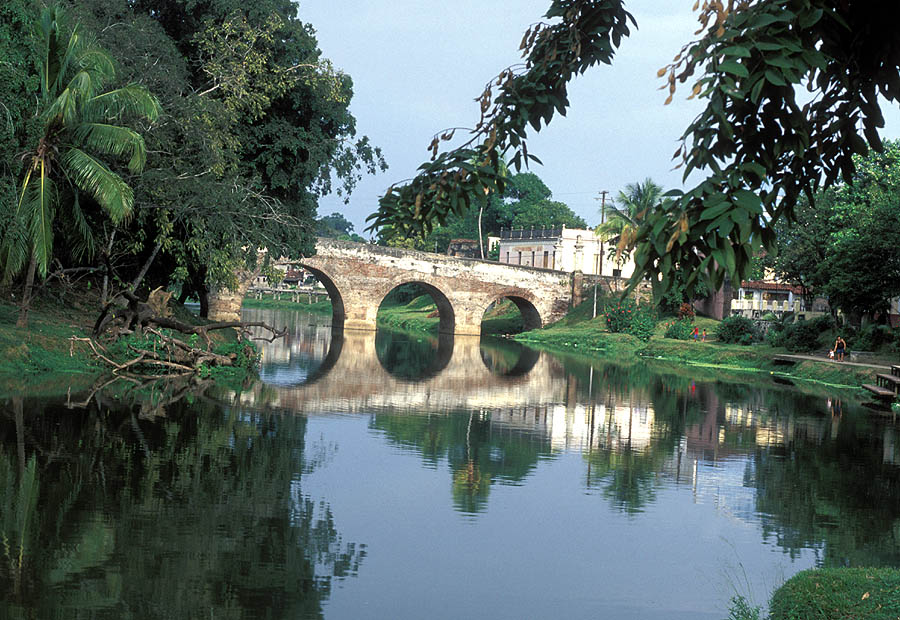 Puente Yayabo, a brick bridge built in 1815 over the Yayabo River in Sancti Spiritus, Cuba